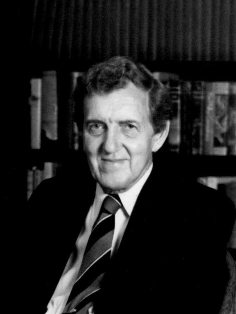 Edmund Sixtus Muskie, U.S. Secretary of State, May 8, 1980 to January 18, 1981: taken in Southwest Employment Area, Washington